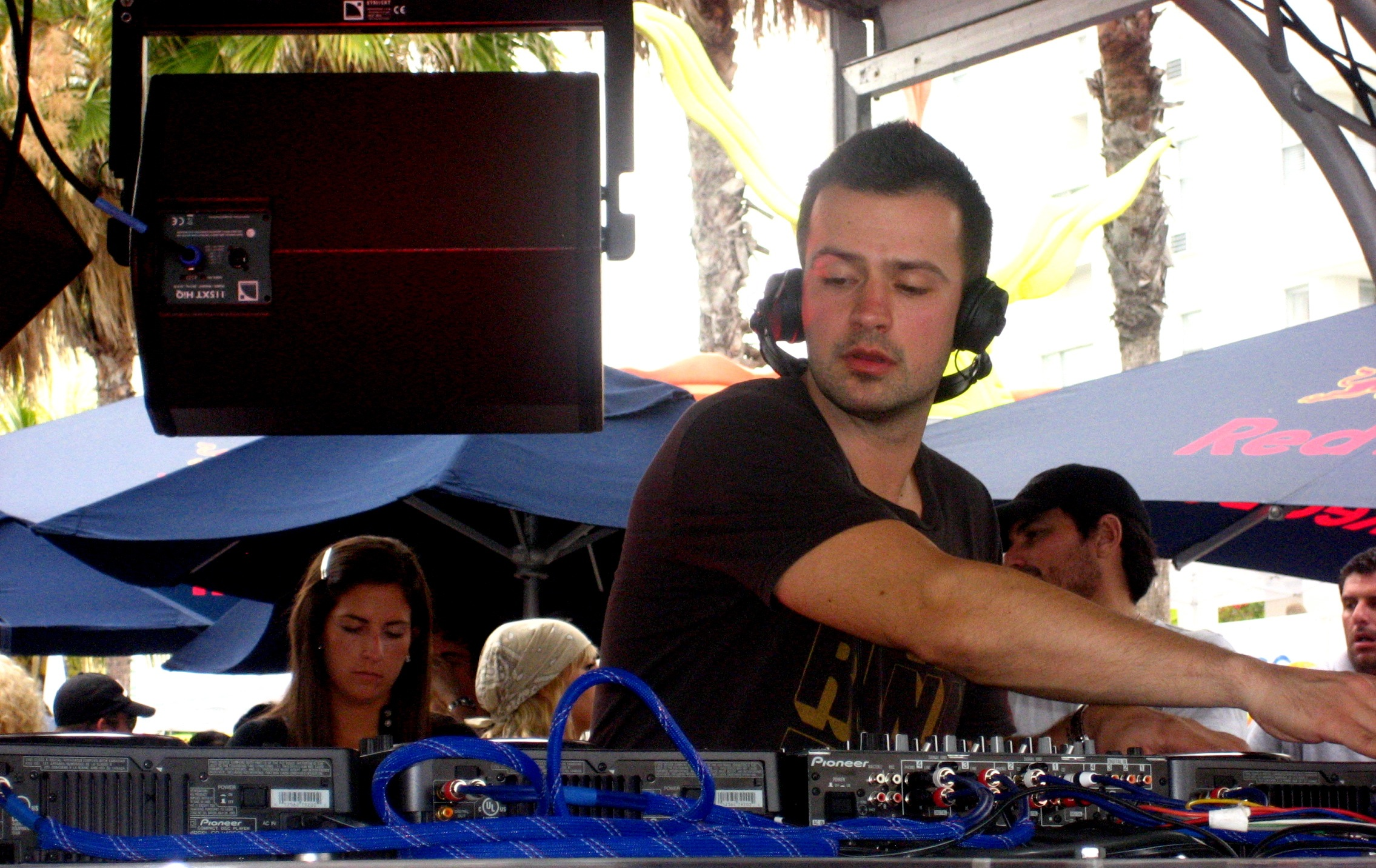 "Dirty South DJ" in South Beach, Miami Beach, Florida